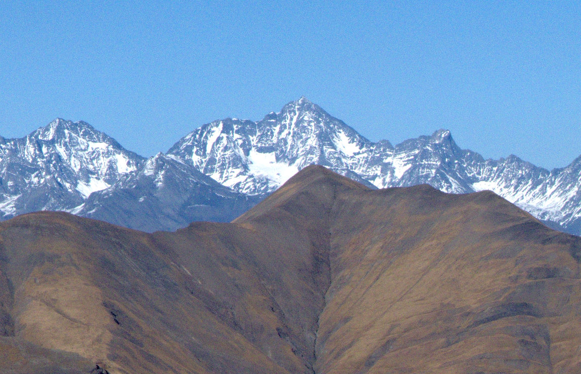 Mount Donosmta viewed from Abano pass.